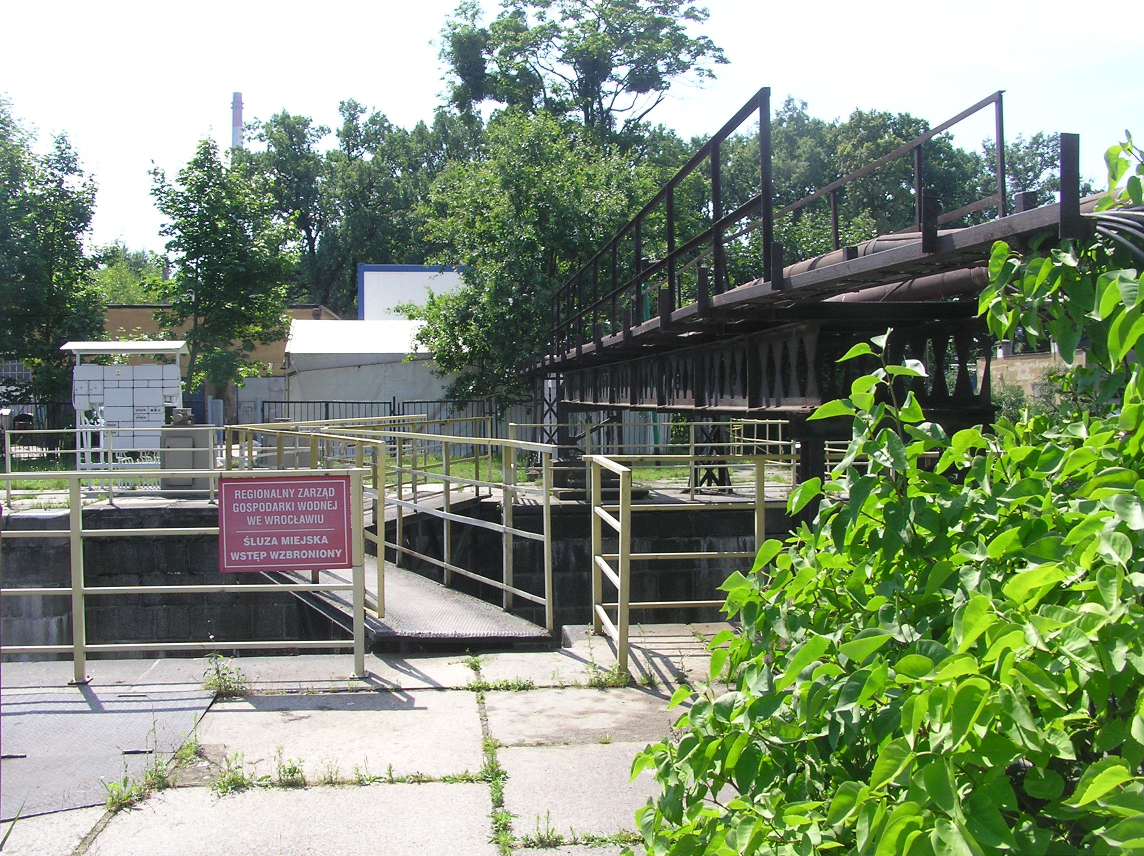 Wrocław, Oder River, trail side Oder waterway (european waterway E-30), Miejski Canal, Miejska Lock